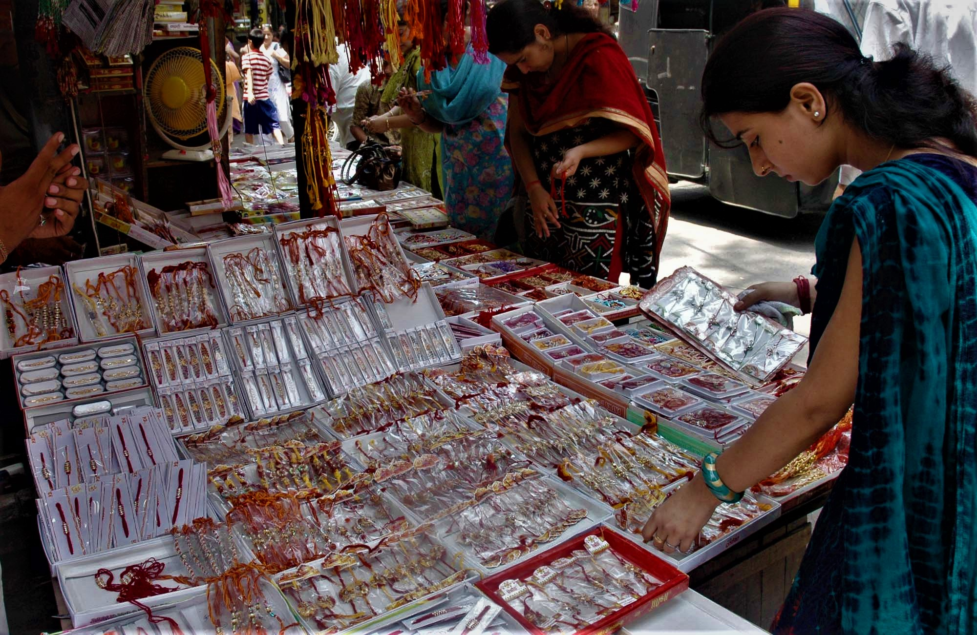 Jammu, August 2009 Girl shopping for Rakhi's on her brother for upcoming Raksha Bandhan festival in Jammu & Kashmir, North India. Raksha bandhan is an Indian festival that celebrates the love between sister and brother. It is also celebrated between any female and any male, regardless of age, to mark their sacred sister-brother like protective and respectful relationship. On that day, the woman does an aarti - a ritual signifying respect and love, then ties a thread on his wrist, followed by feeding each other with sweets. Raksha bandhan is a historic festival, prevalent among Hindus, Jains and Sikhs. Rakhi is a thread that a woman ties to a man (sister to a brother). They come in many colors, but safron, red and orange are most common. Sometimes above the thread are colorful decorative pieces.